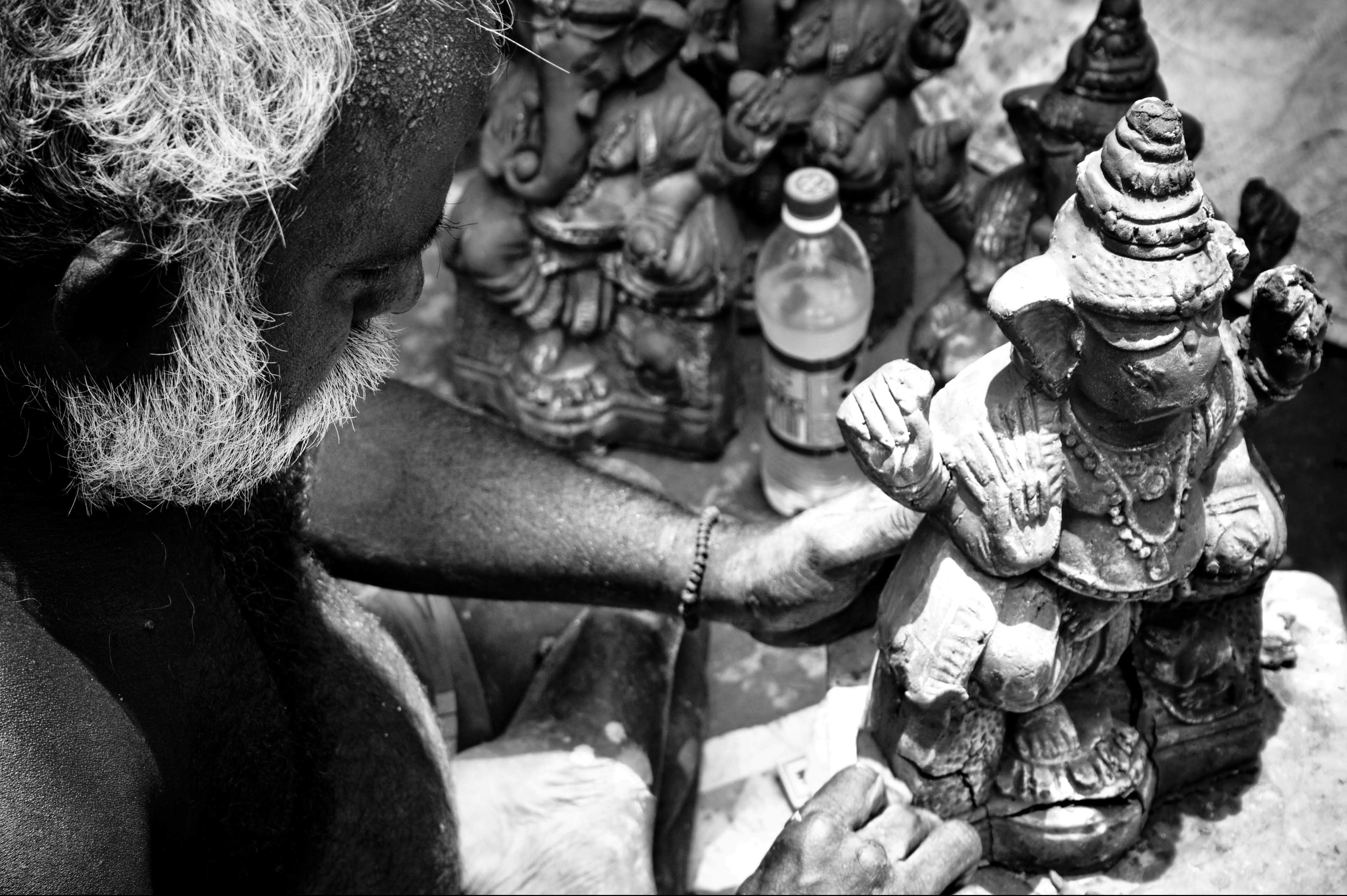 Making of pilliyar idol for vinayagar chathurthi, at kusapet. Kusapet is well-known for making huge statues for Ganesh Chathurthi Festive. Residents of Kuspaet are basically potter, hence its also called Kuyavar Pettai. Ganesha statues of different sizes are made here from a month or two before the festival.